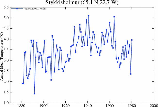 Climate graph of 1880 2009 air average temperaturas of Stykkishólmur, Iceland